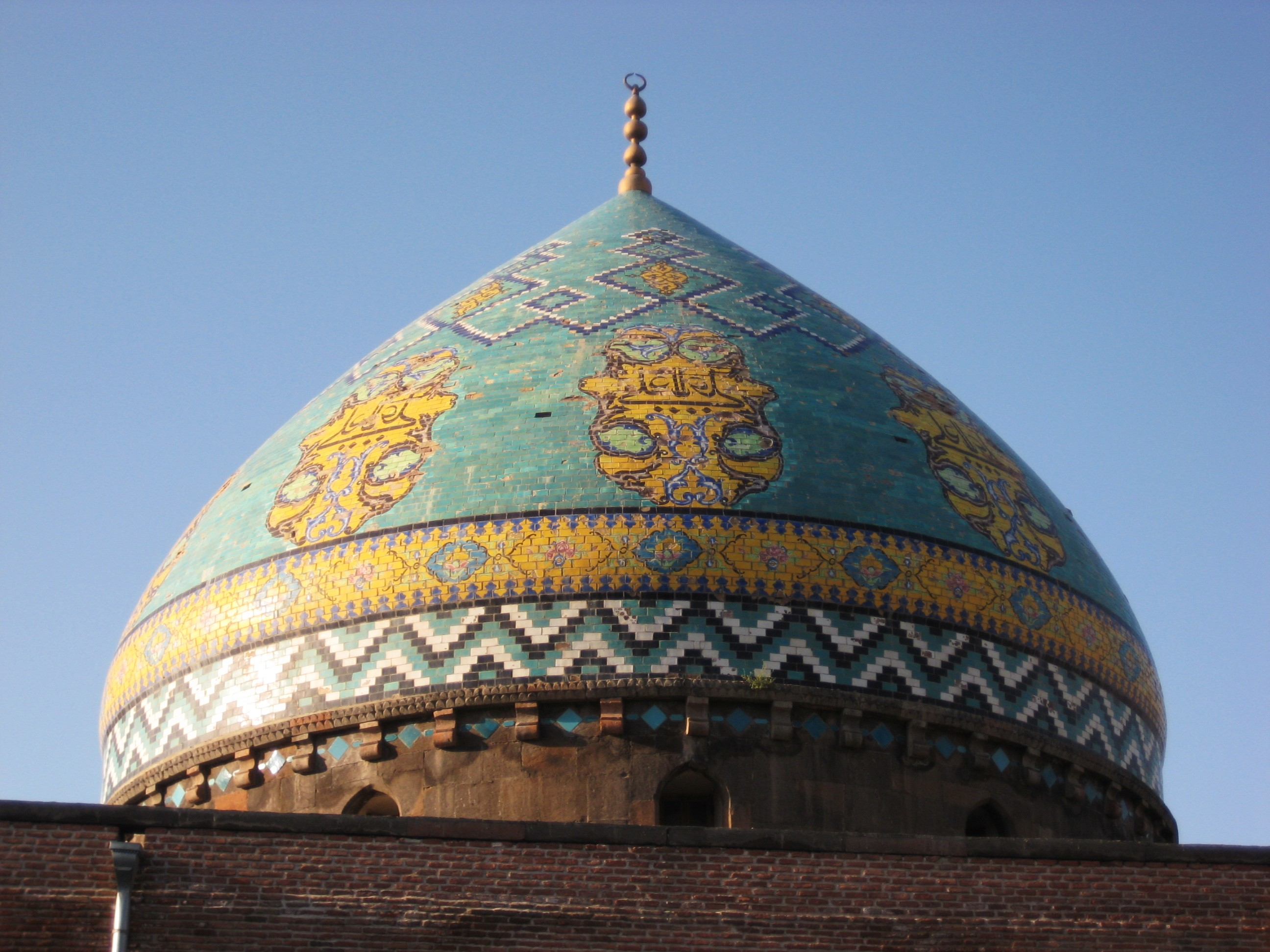 Dome of the Blue Mosque (Gök Jami) of Yerevan, Armenia. 6/150